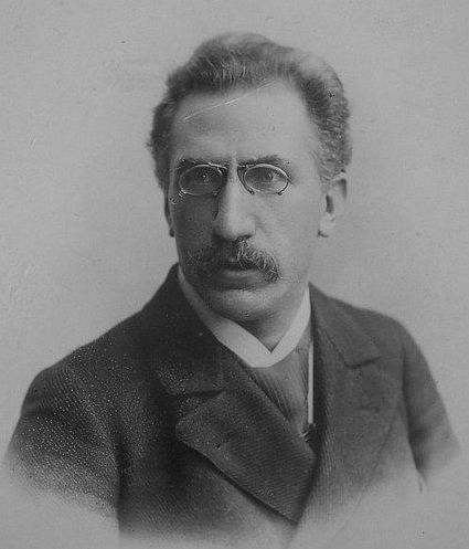 The German artist Hugo Rheinhold